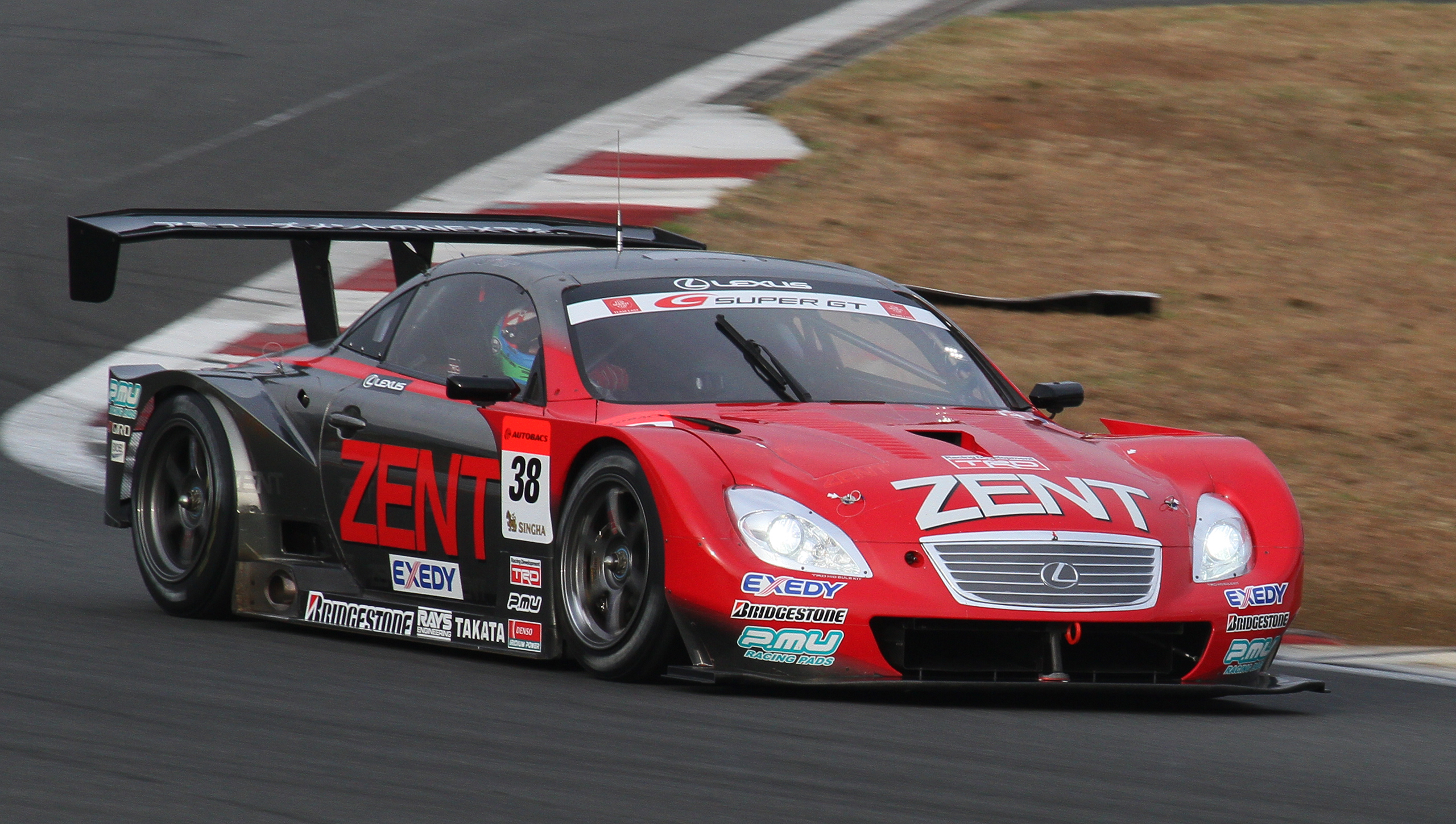 2010 JAF Grand Prix - GT500 Race 1: Richard Lyons (Lexus Team ZENT Cerumo) driving the Lexus SC GT500.